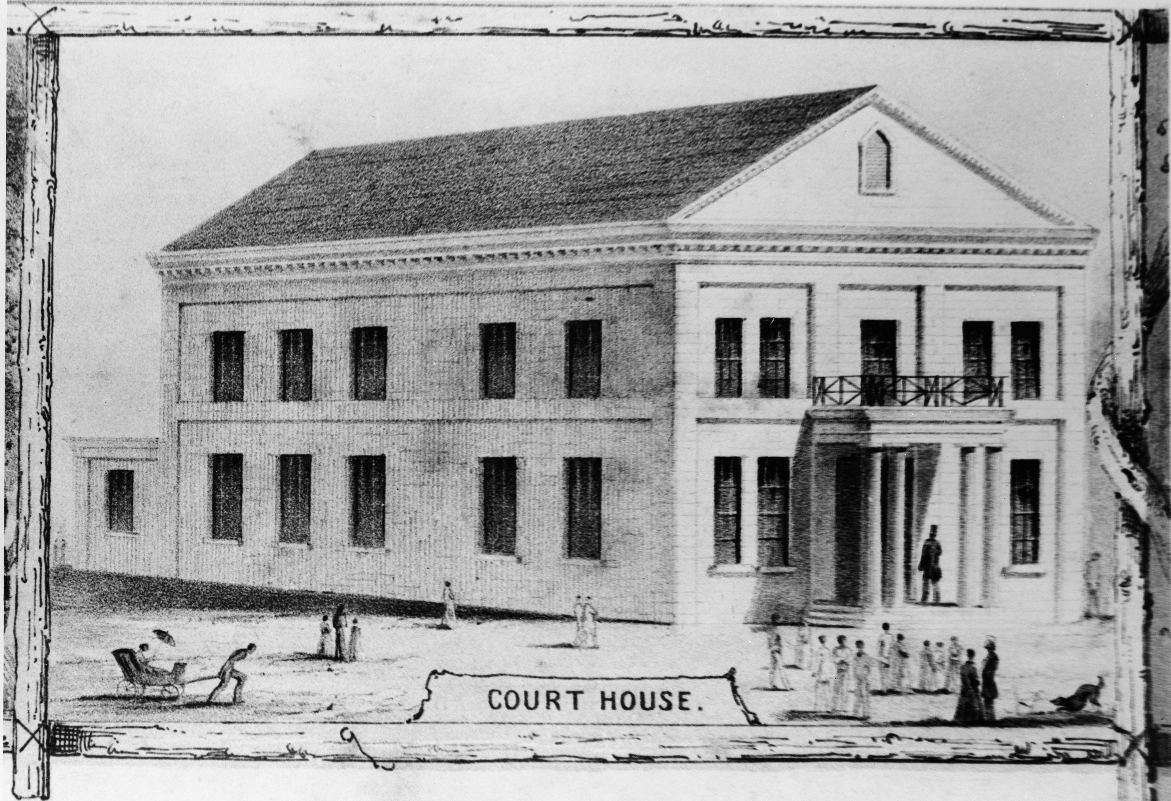 4. GENERAL VIEW (1853 lithograph by Paul Emmert) - Old Courthouse, Queen Street between Fort & Bishop Streets, Honolulu, Honolulu County, HI.